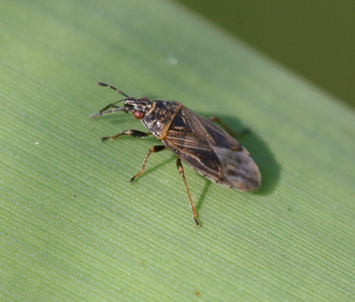 Fordell Ponds, Dalkeith, Midlothian, Scotland